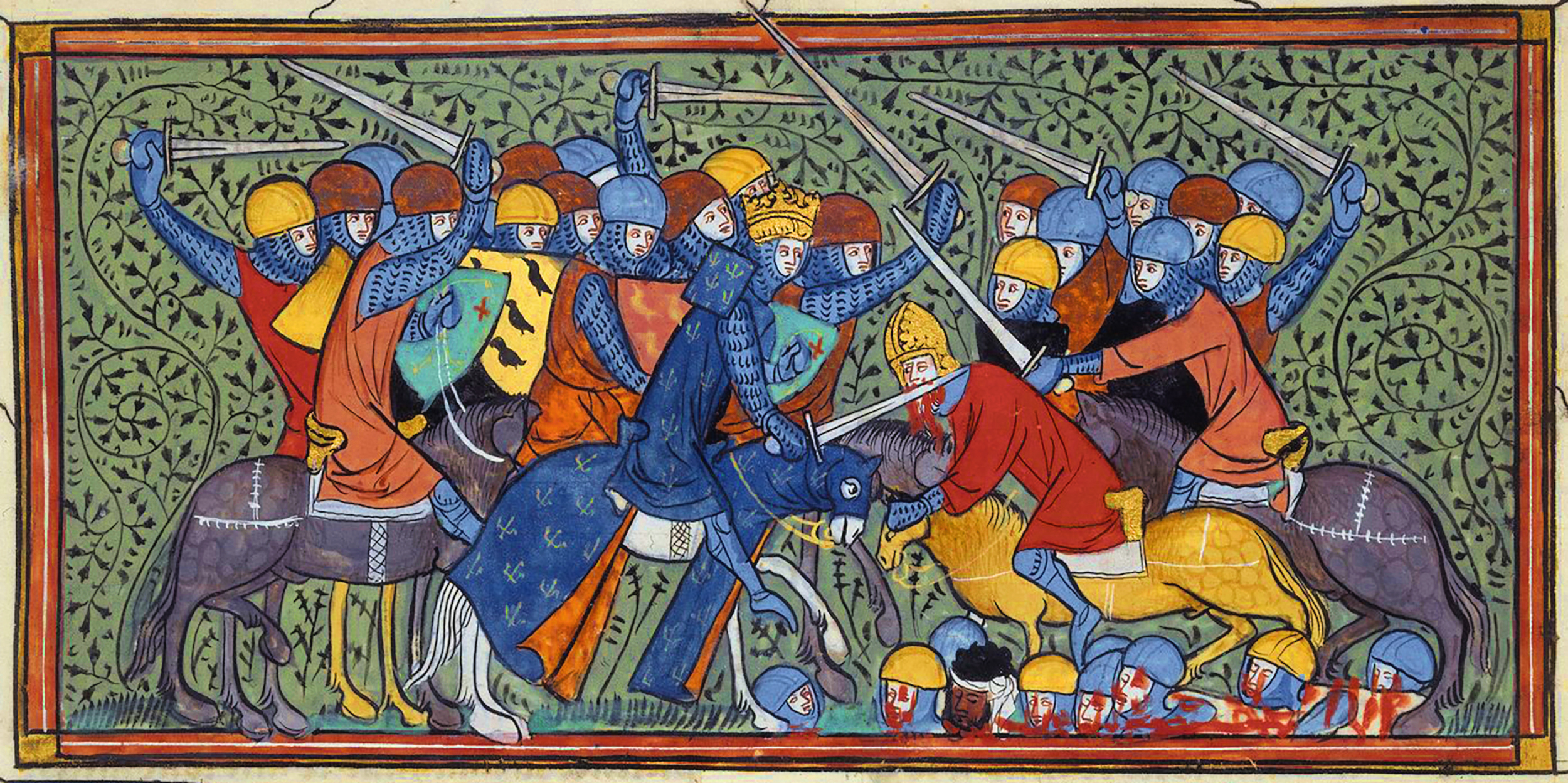 Charles Martel at Battle of Tours, Great Chronicles of France